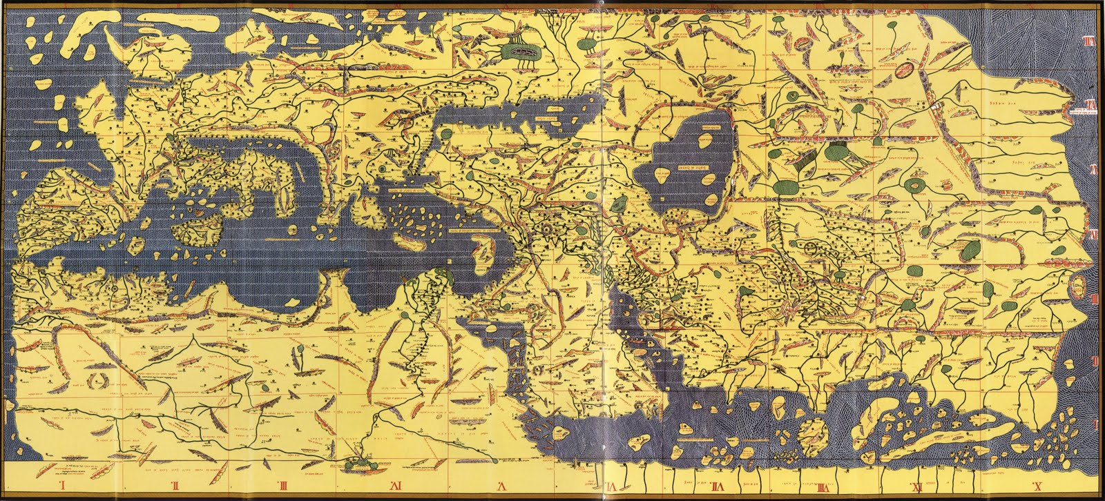 Universal Map 2, Al-Idrisi (1100-1165)